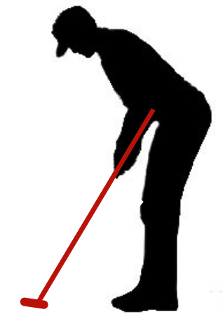 Belly-Putter